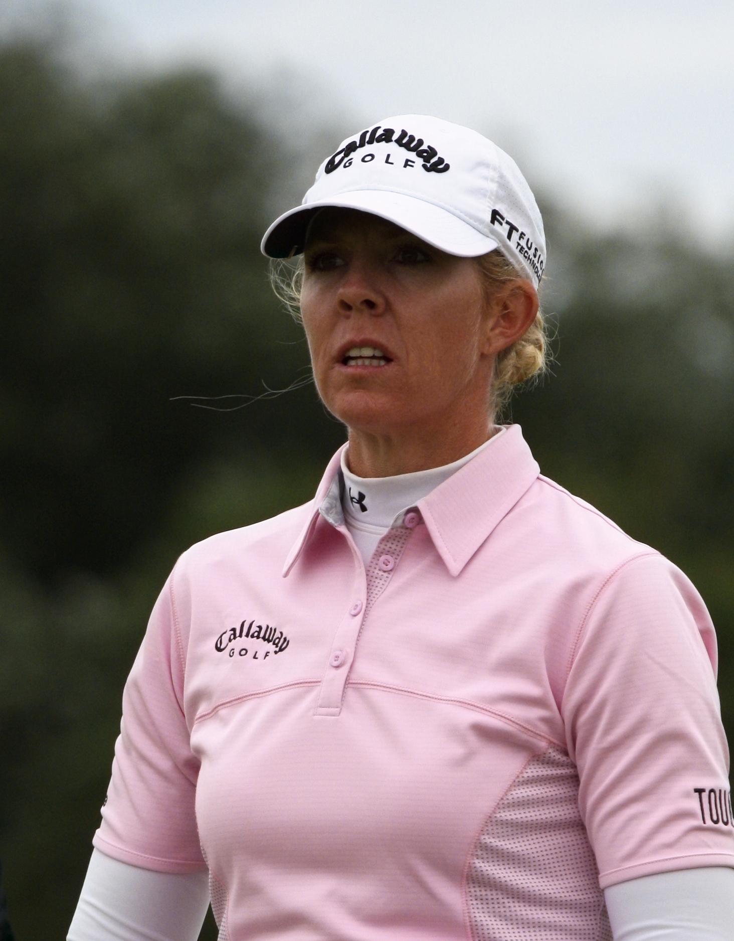 LYTHAM ST ANNES, UNITED KINGDOM - JULY 29: Jill McGill on the 11th green during third practice round before 2009 Ricoh Women's British Open held at Royal Lytham & St Annes on July 29, 2009 in Lytham St Annes, England. (Photo by Wojciech Migda)